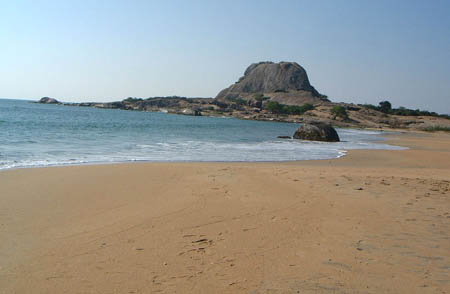 Yala National Park